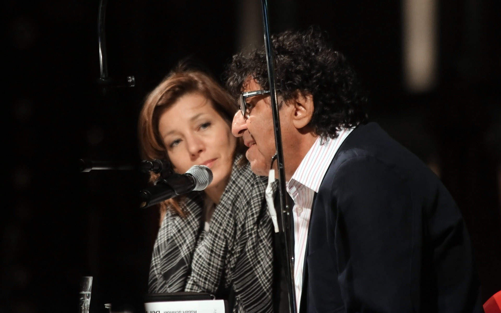 Clarissa Stadler and Robert Schindel, o-töne 2013 at Museumsquartier in Vienna.